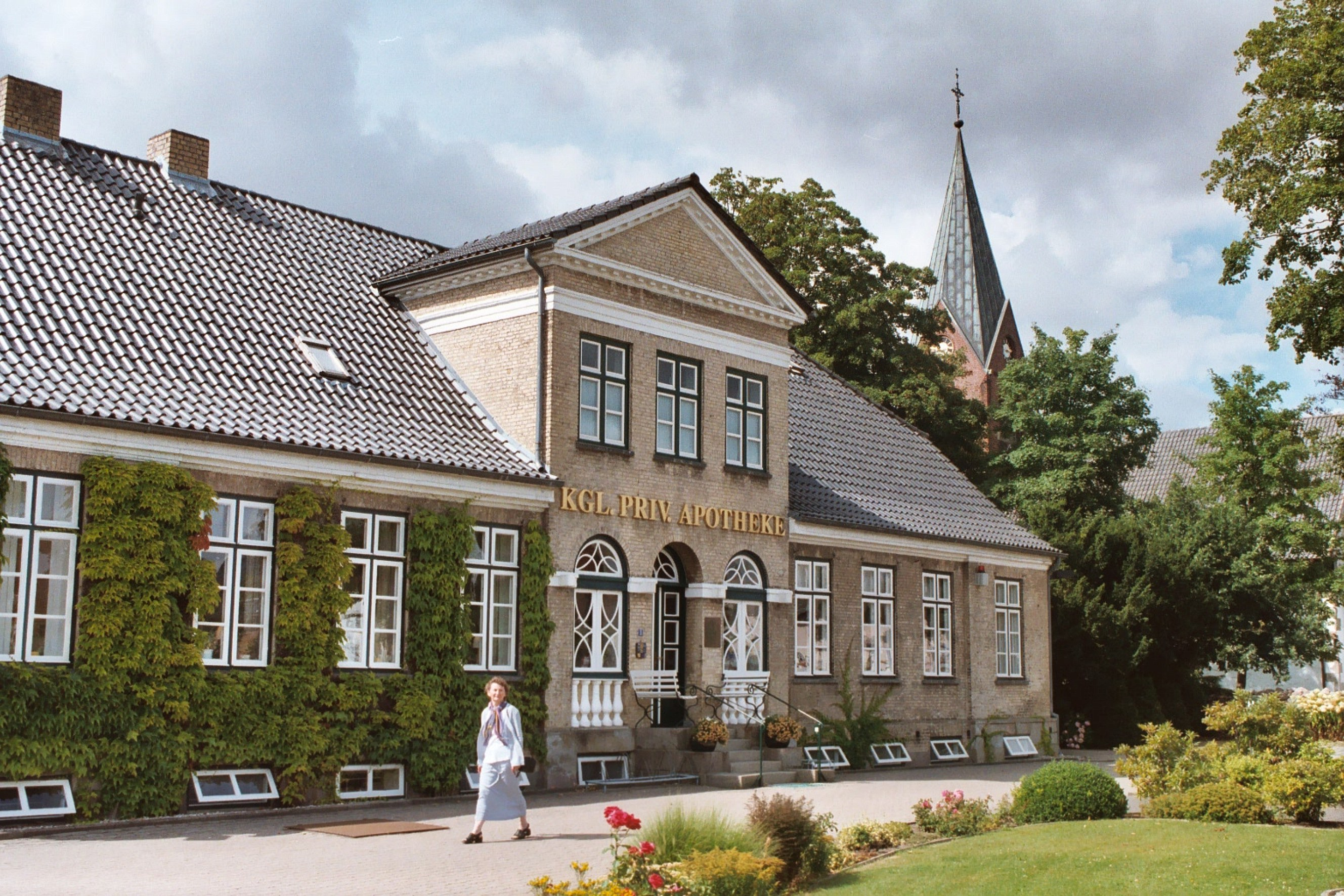 Satrup, Apotheke; Denkmalliste Nr. 2, aufgenommen 2003 This is a photograph of an architectural monument.